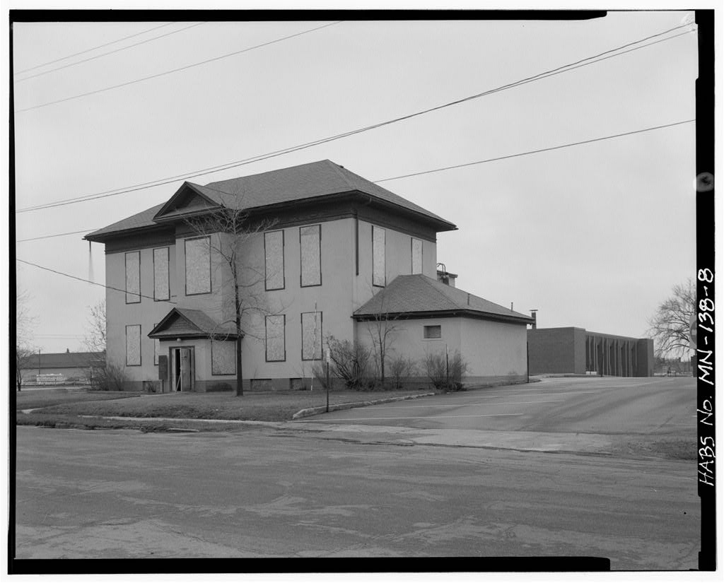 Sherburne County Courthouse, built 1877